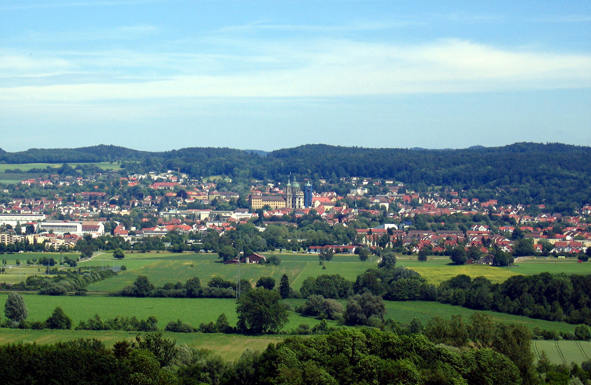 Weingarten (Württemberg), Germany